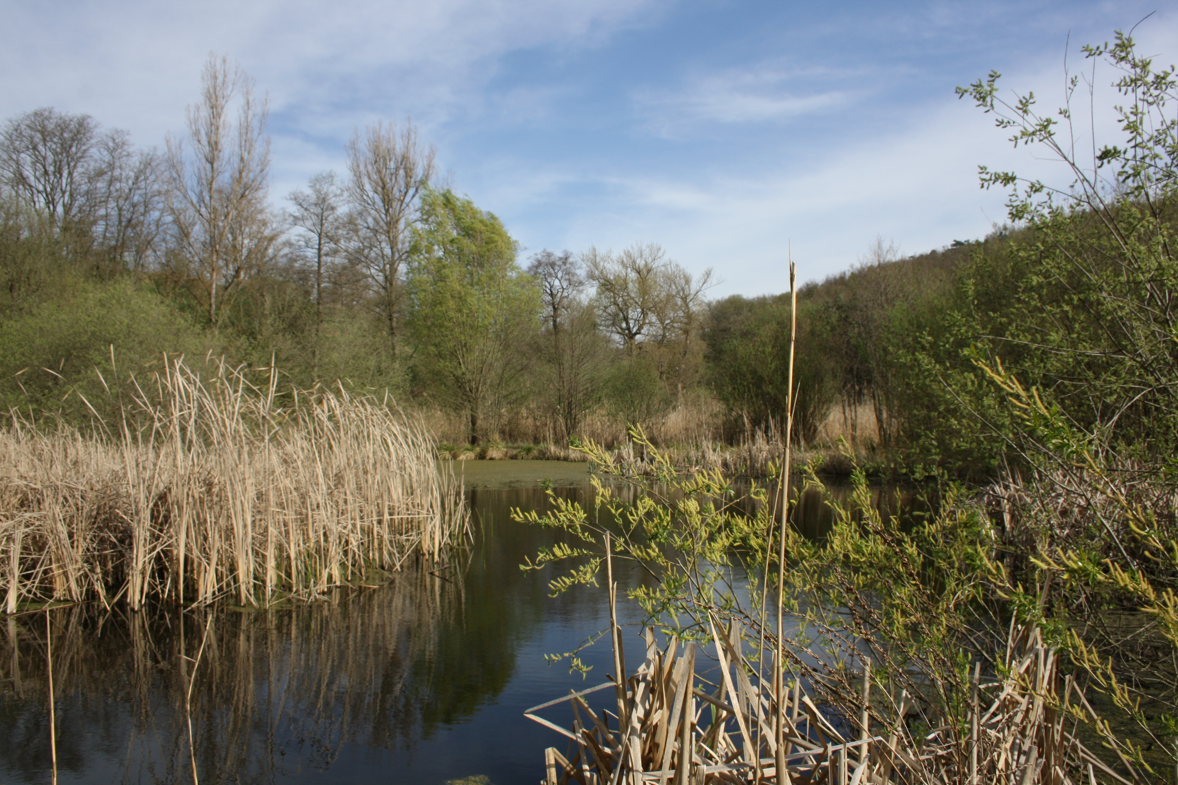 Natural moument Střelická bažinka in nature park Bobrava. Brno-Country District, Sout Moravian Region, Czech Republic Project: Chráněná území This photograph was taken with a DSLR from WMCZ's Camera grant.